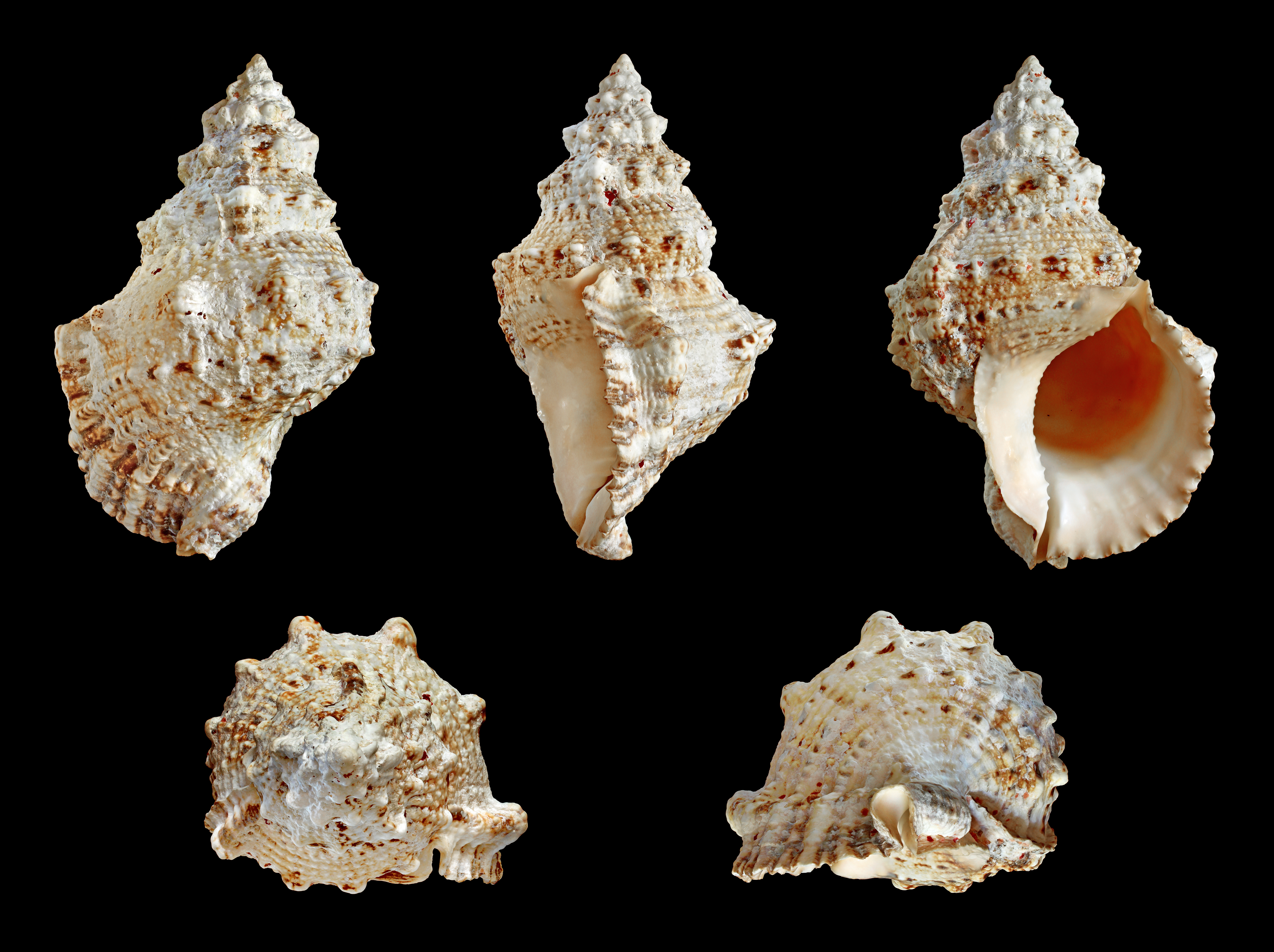 Giant Frog Shell; Length 16.7 cm; Originating from the Indo-Pacific; Shell of own collection, therefore not geocoded. Dorsal, lateral (right side), ventral, back, and front view.